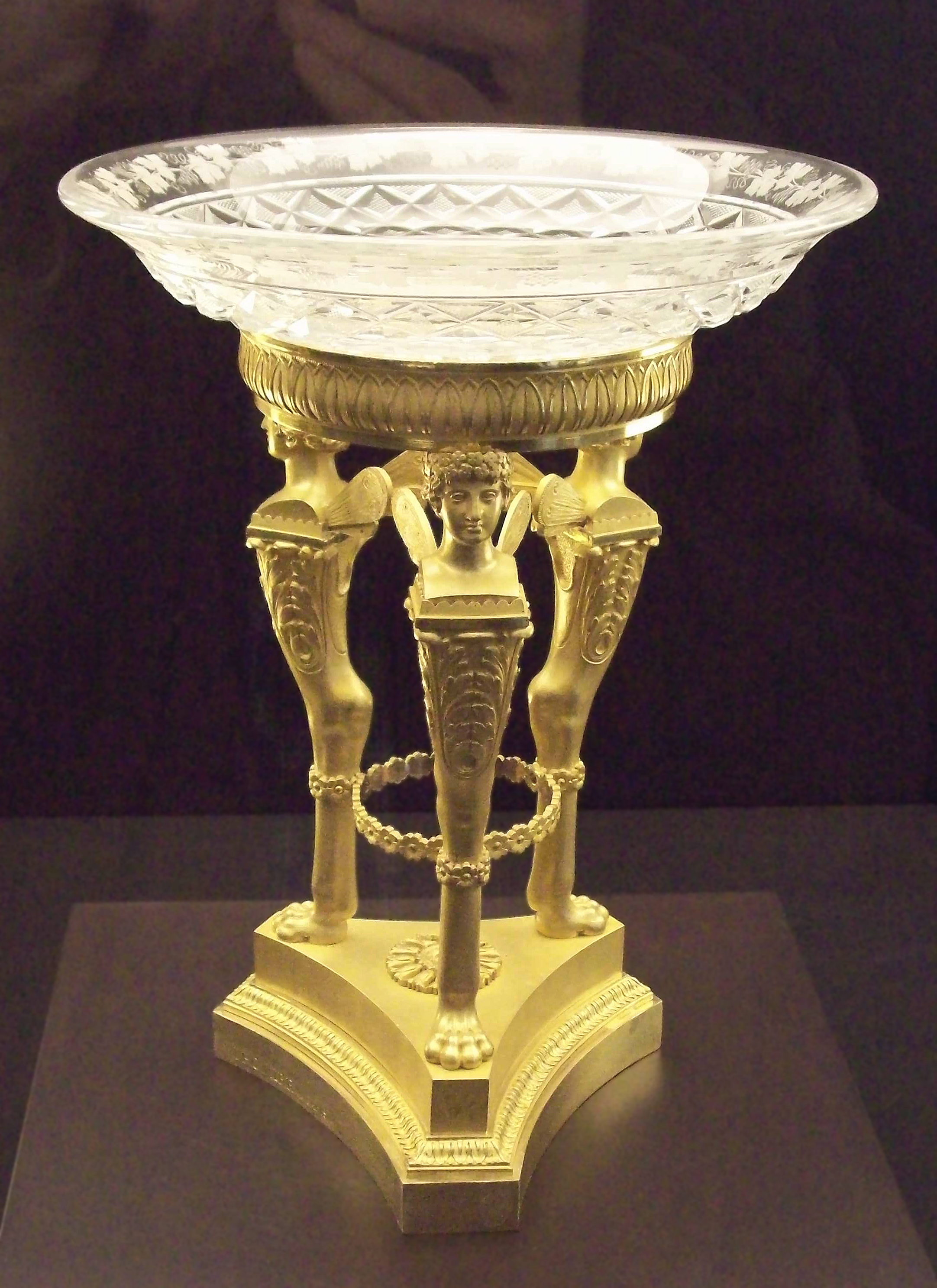 A fruit bowl.